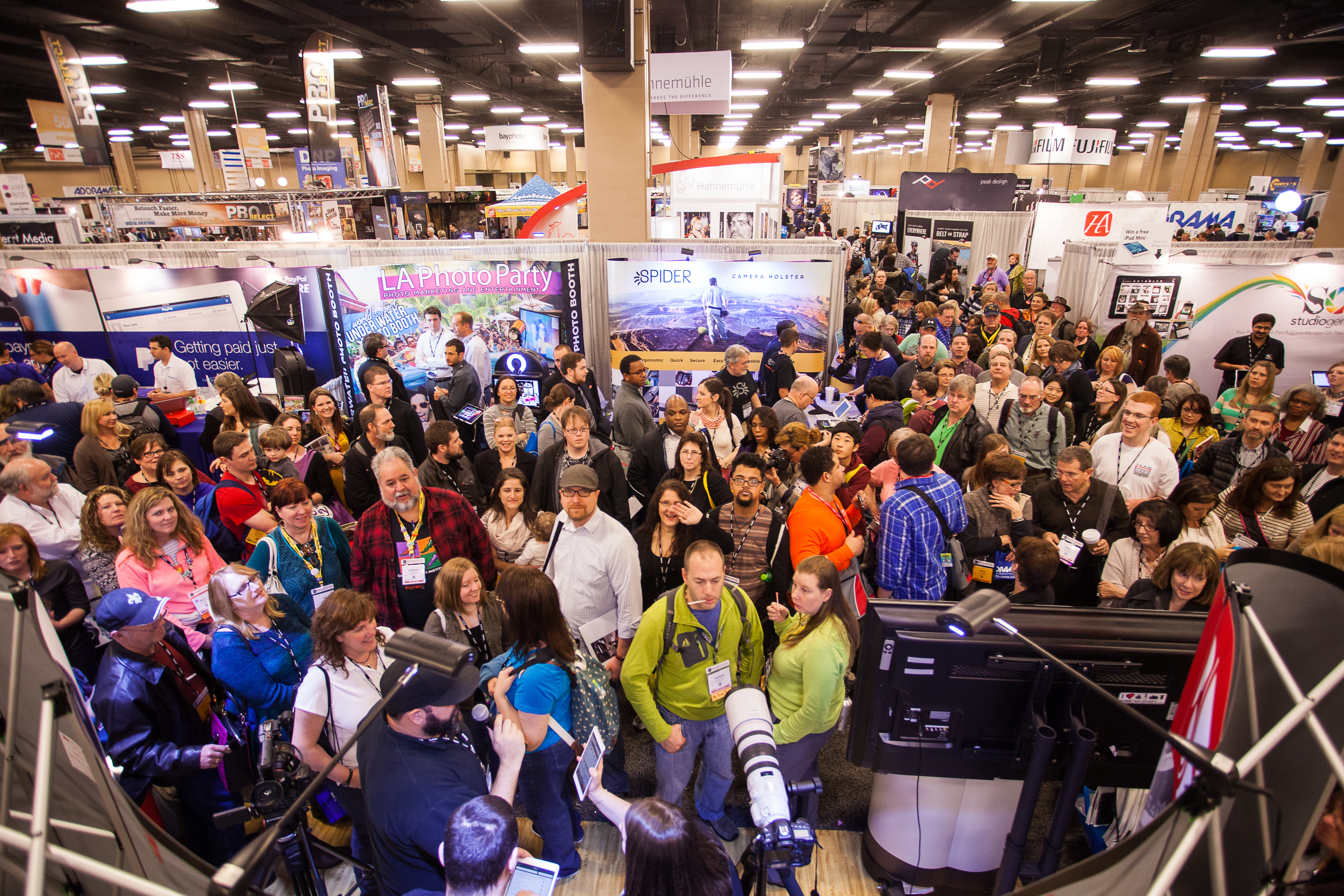 Alex the Photo Guy (Professional Photographers of America)